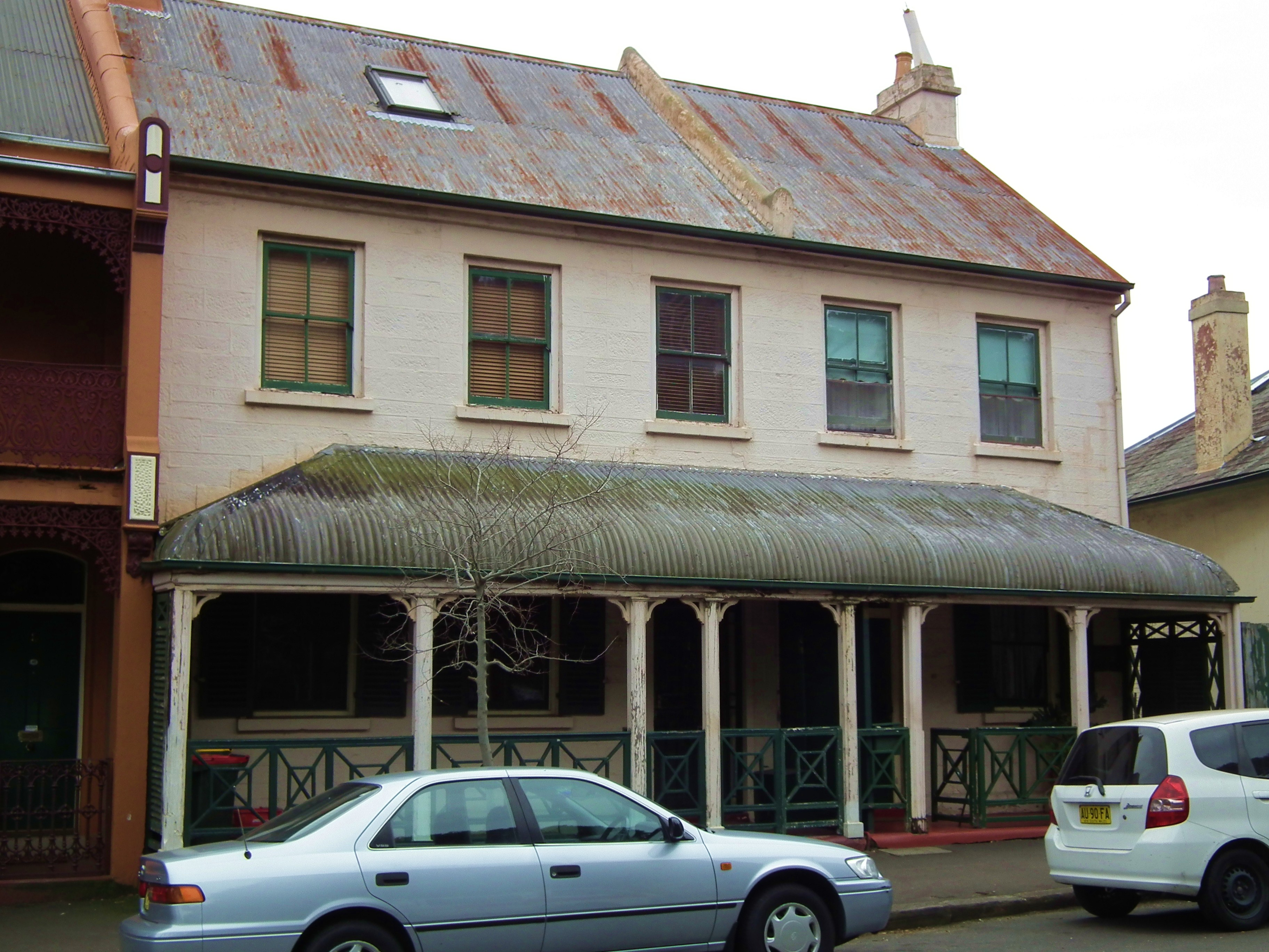 46-48 Argyle Place, Millers Point, Sydney, New South Wales, Australia. Two Georgian townhouses built c.1850.